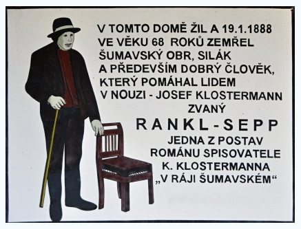 Publicly accessible information board on the left side of the entrance door to the guesthouse at the address Stachy number 132. The information board says that in the house lived and died Josef Klostermann (* 1819 - 1888), alias "Rankelský Sepp" or abbreviated "Rankl Sepp" - a legendary figure of Šumava - kindhearted strongman, who in his novel "The Šumava Paradise" (V ráji šumavském) captured the writer Karel Klostermann.